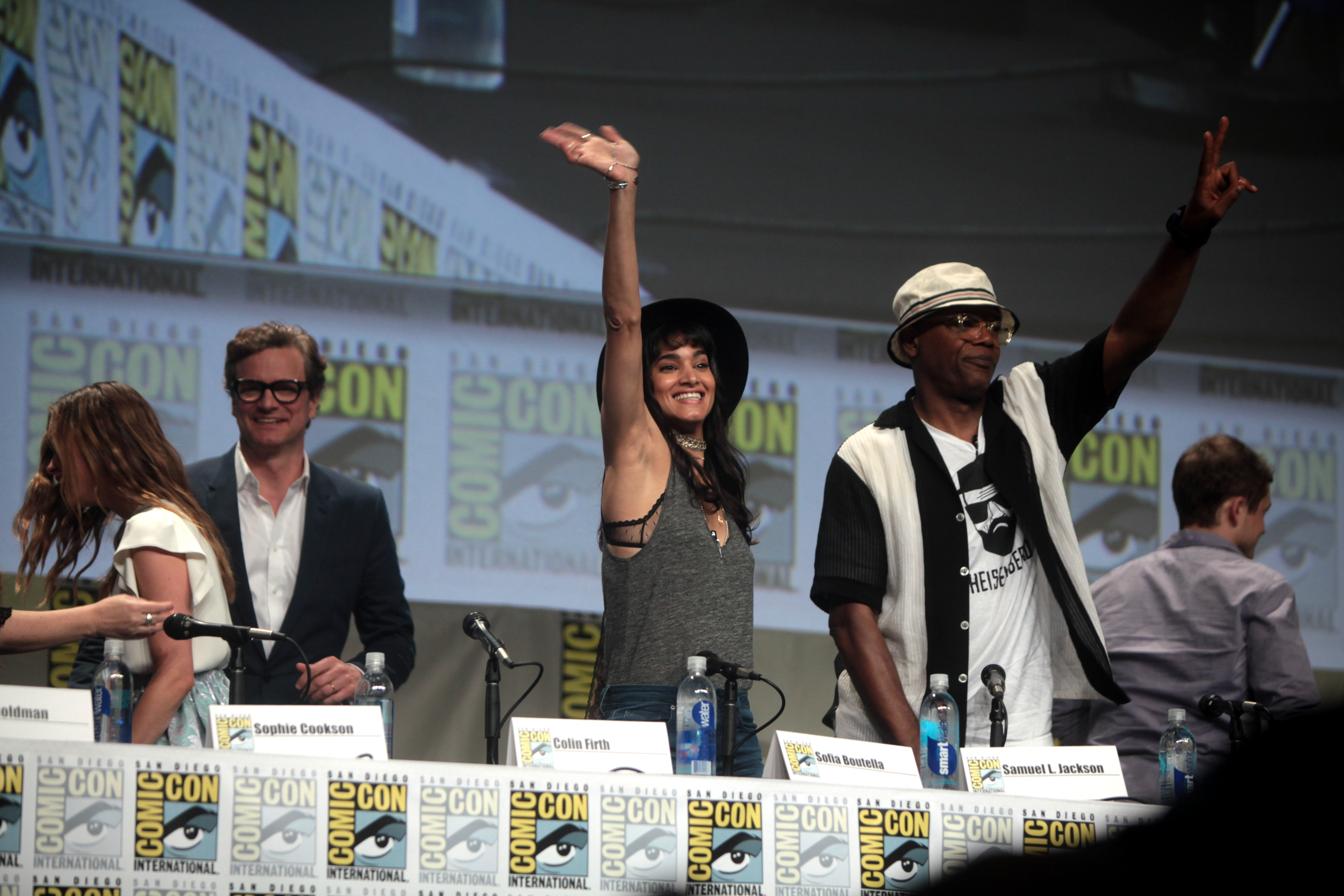 Sophie Cookson, Colin Firth, Sofia Boutella, Samuel L. Jackson and Taron Egerton speaking at the 2014 San Diego Comic Con International, for "Kingsman: The Secret Service", at the San Diego Convention Center in San Diego, California.